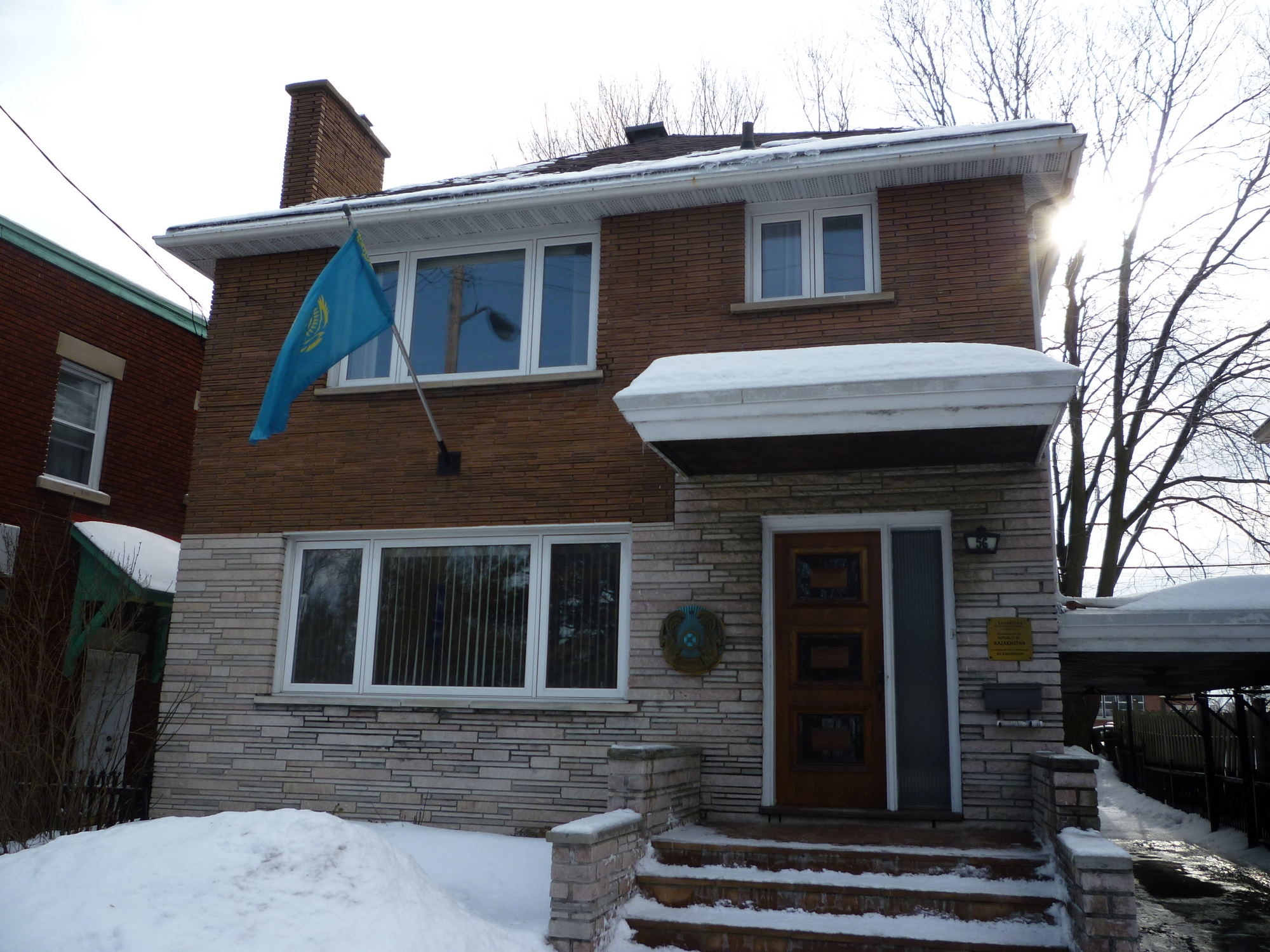 Embassy of Kazakhstan in Ottawa, on 56 Hawthorn Ave.